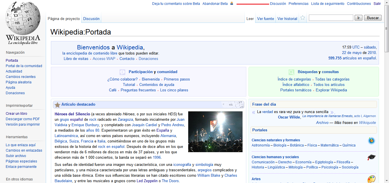 Wikipedia's skin for registred users